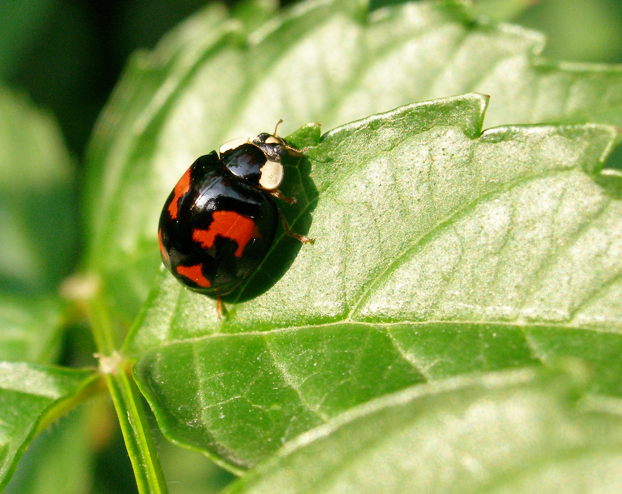 Black variant of the Asian lady beetle (Harmonia axyridis, forma spectabilis). Note: This image has a misleading file name due to incorrect initial identification.